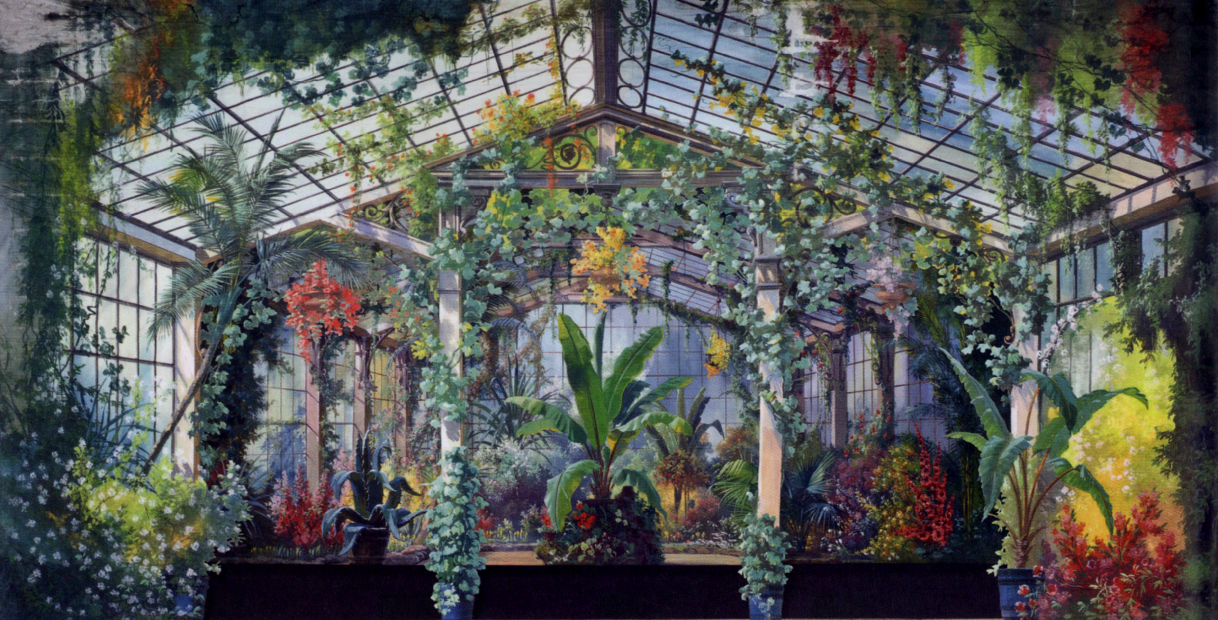 Konzerthaus Ravensburg, stage of William Babb, ca 1902-1910, prospectus and hanged in front of a backdrop arc with interior palm house, about 10 mx 5 m